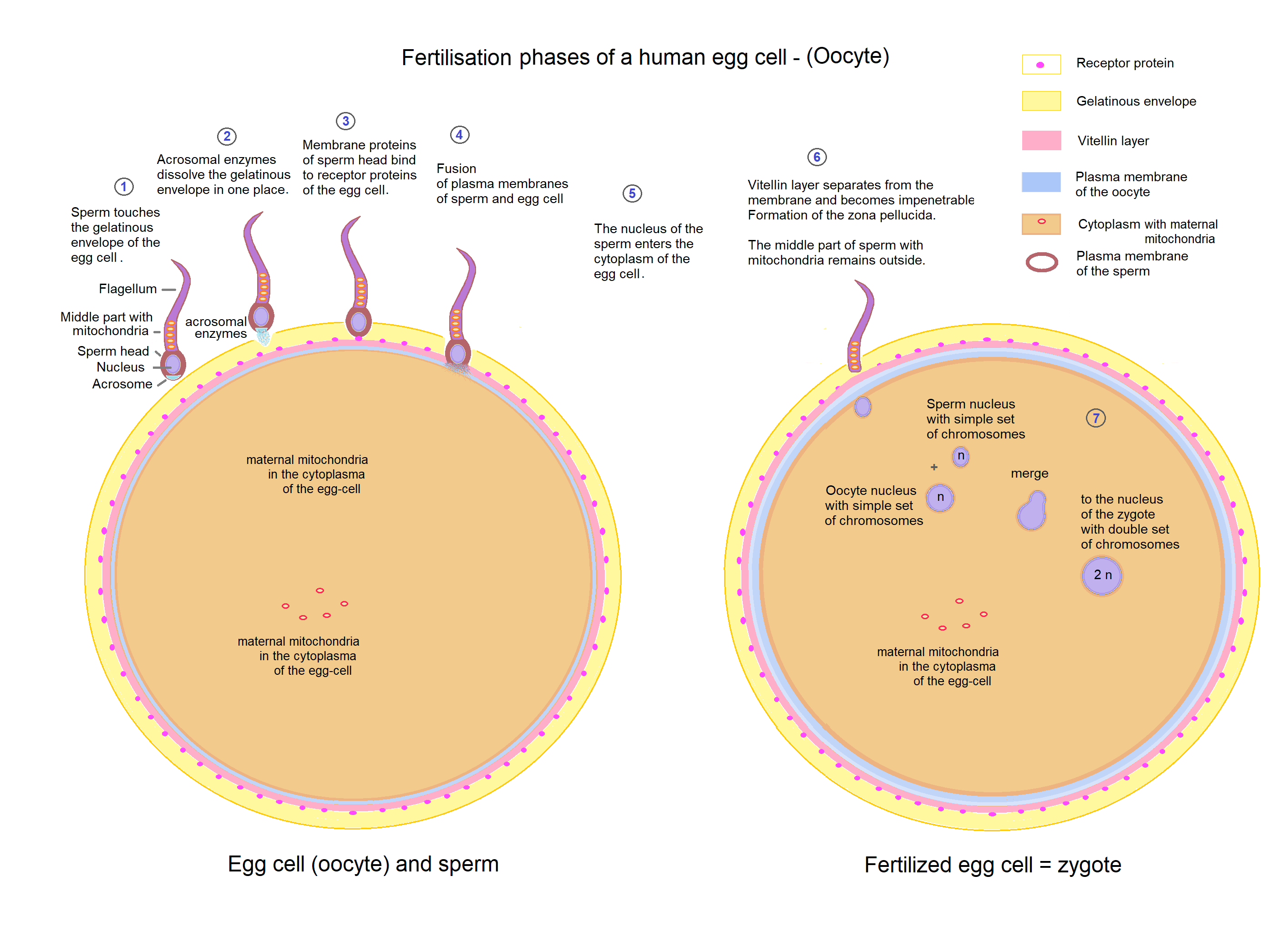 Fertilisation phases of a human egg. The middle part of the sperm with mitochondria of the father remains outside the zygote. The mitochondria of the mother are already in the oocyte.